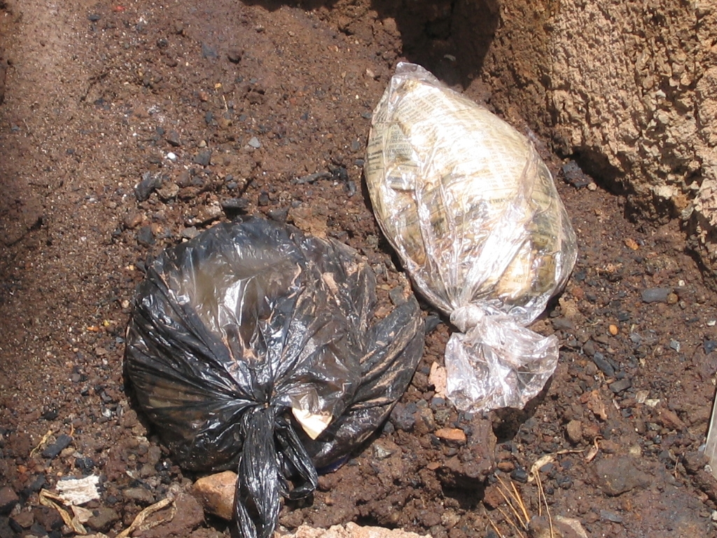 This is what people in slums have to use in the absence of toilets. Photo by V. Okello, Kenya, Feb 2008/